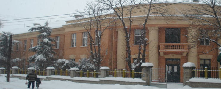 Gjimnazi "Gjon Buzuku"